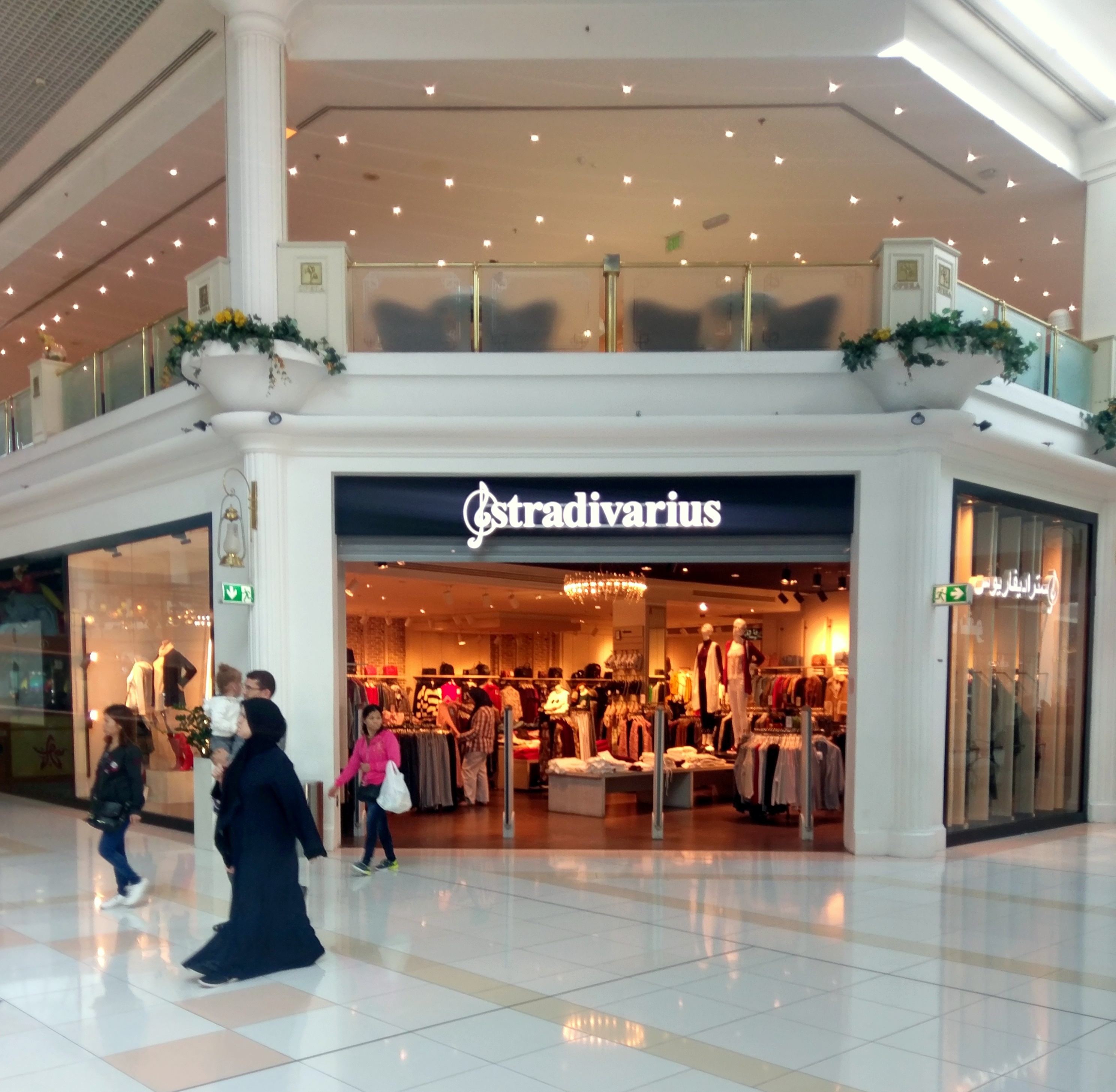 Stradivarius, Landmark Mall, Doha.